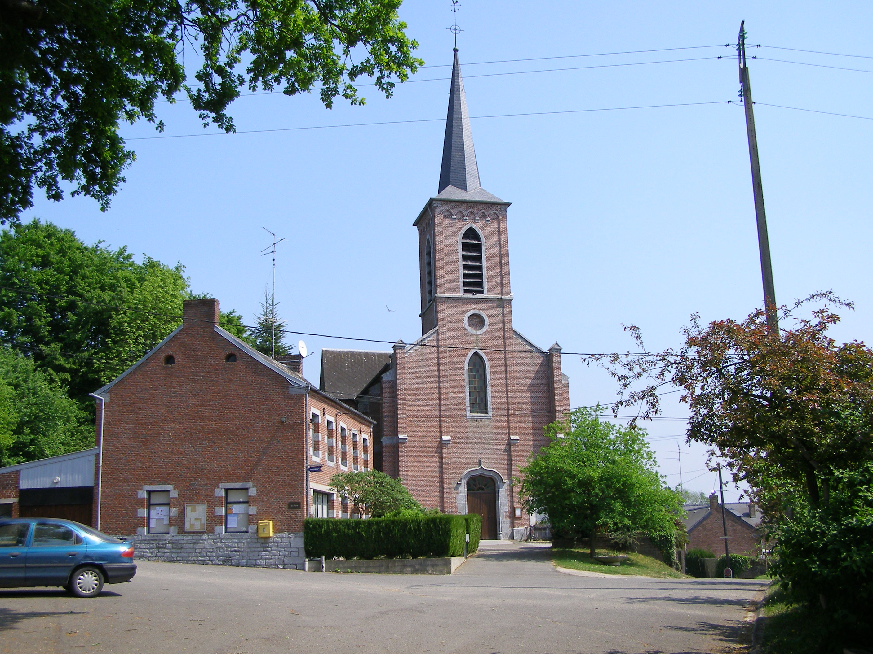 The town hall and the church Solrinnes.